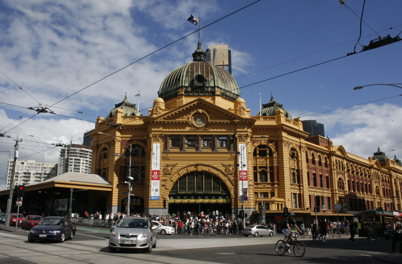 View of Flinders Street Station, Melbourne, Australia, from Swanston St.